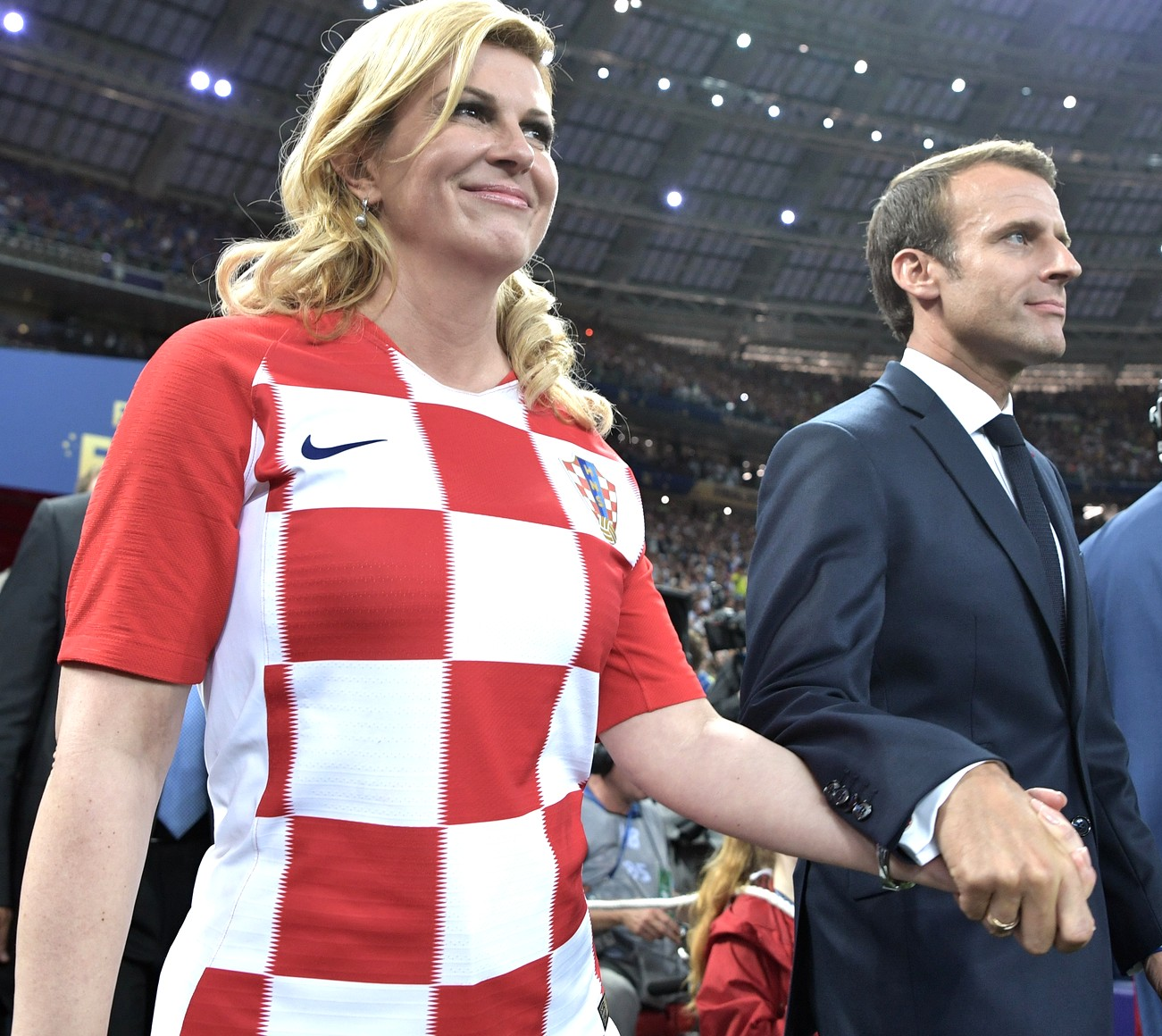 Kolinda Grabar-Kitarović and Emmanuel Macron prepare to award the first and second places in the final of the 2018 Russian Football Cup